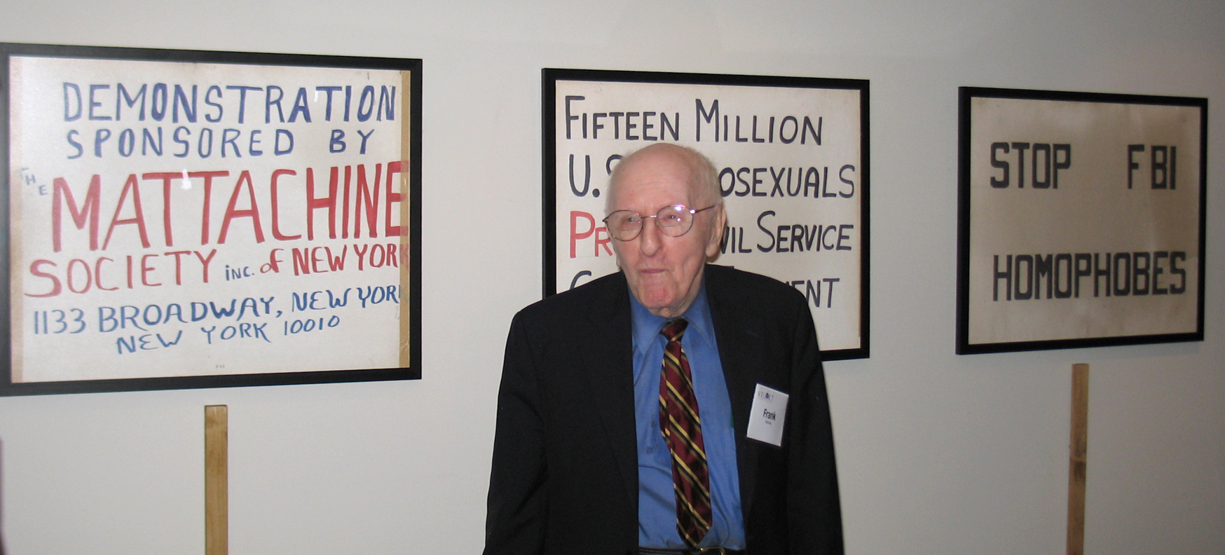 Pioneering gay rights activist Frank Kameny standing in front of signs once used during protests